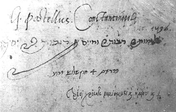 Note_of_Postel_on_an_Arabic_astronomical_manuscript_in_1436_in_Constantinople.